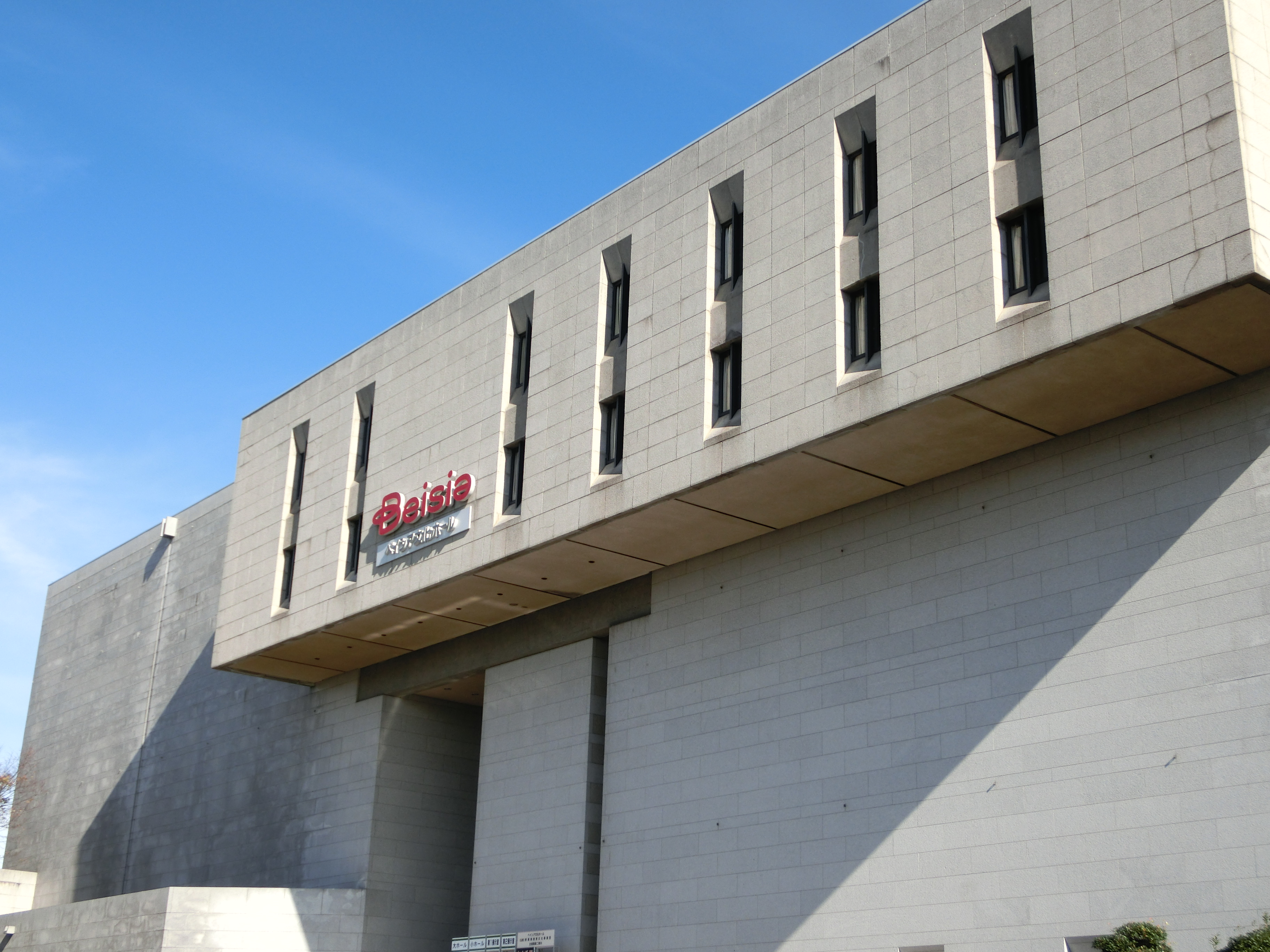 Gunma Prefectural Civic Center